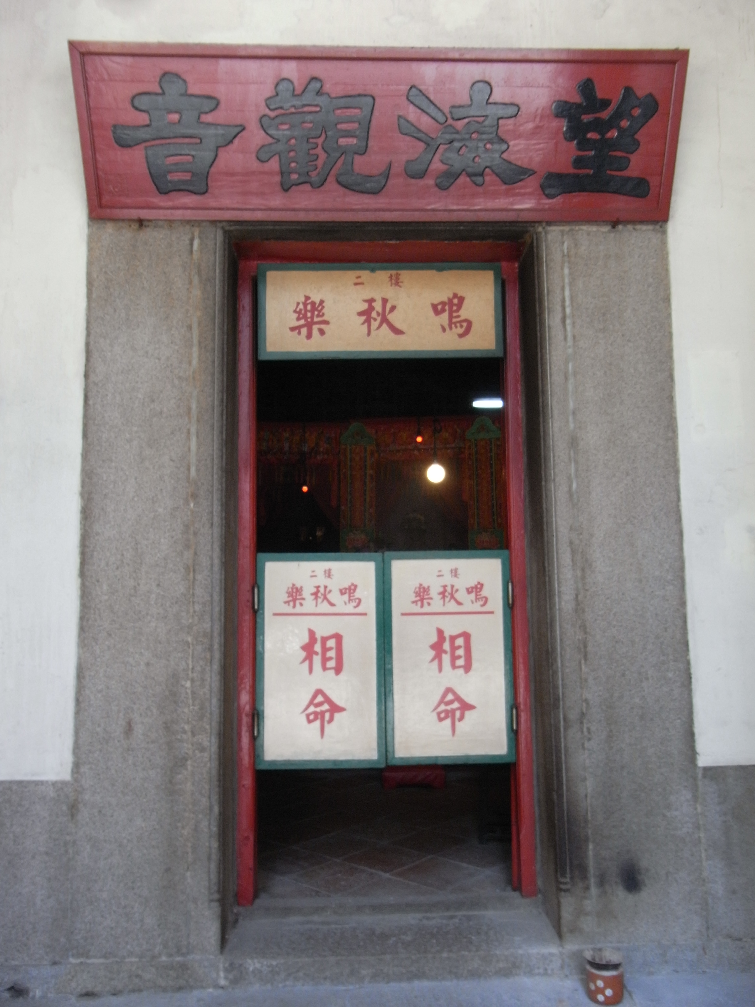 灣仔